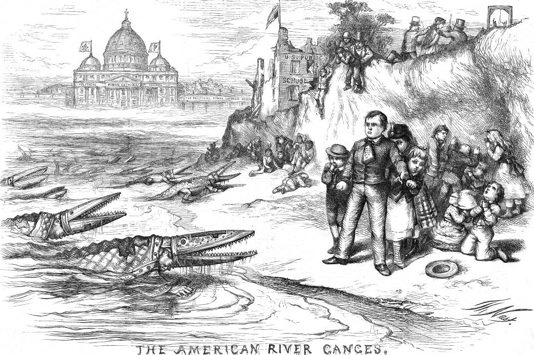 "Roman Catholic clergy as crocodiles invading America's shore to devour the nation's schoolchildren--white, black, American Indian, and Chinese. (The white children are prominent in front, the rest are in the background.) The public school building stands as a fortress against the threat of theocracy, but it has been bombarded and flies Old Glory upside down to signal distress."[1]